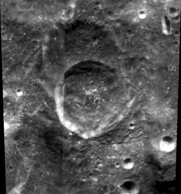 Pikel'ner lunar crater - Clementine image